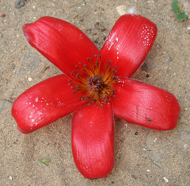 Semal Bombax ceiba in Kolkata, West Bengal, India.